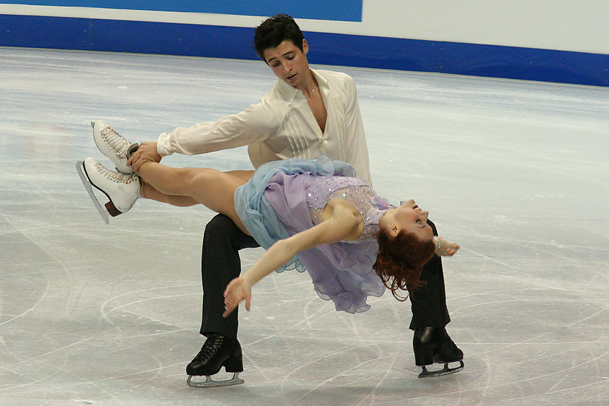 Tessa Virtue & Scott Moir perform a lift at the 2006 Skate Canada International.